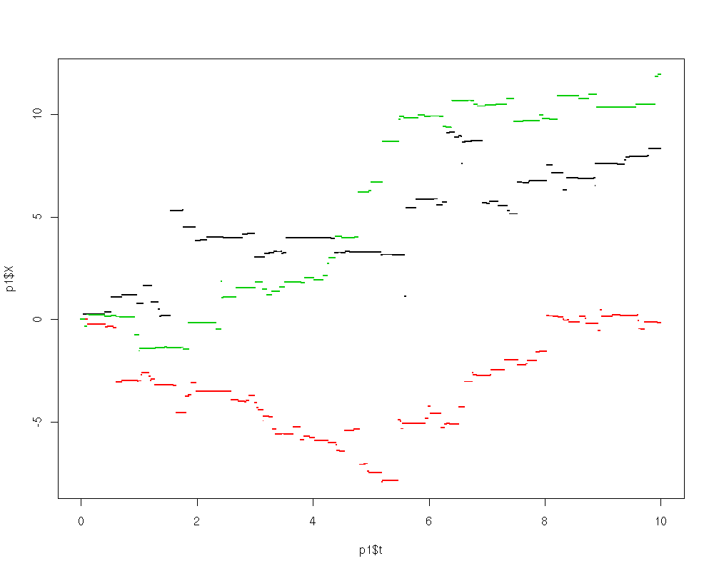 three sample paths of variance-gamma levy processes